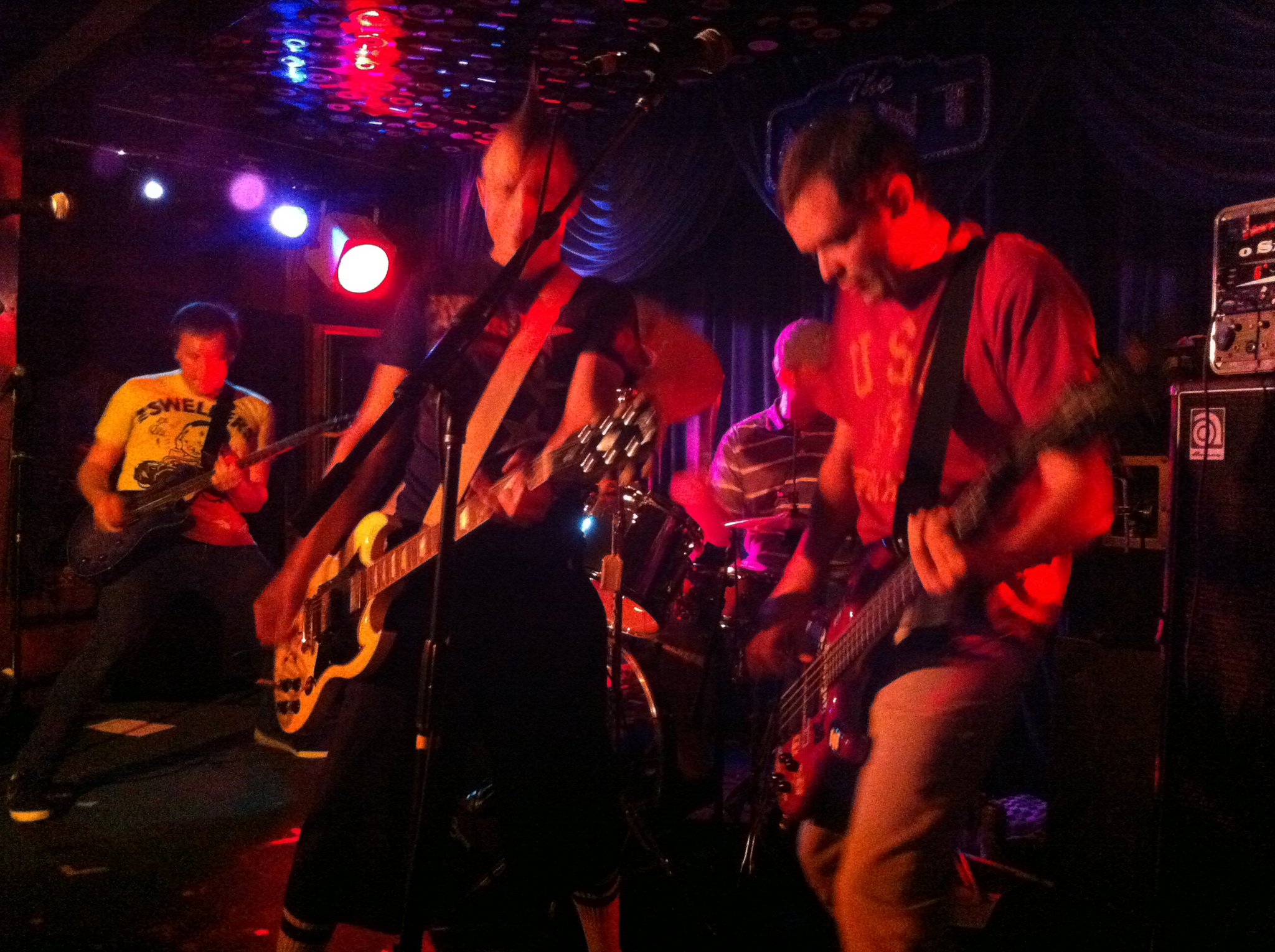 Better Luck Next Time performing at The Mint in Los Angeles on June 11, 2011.